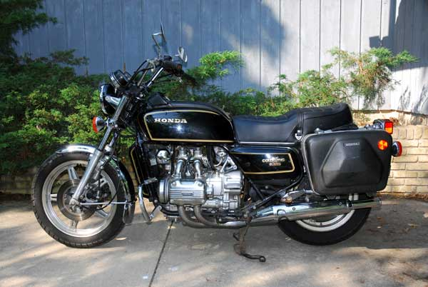 Photo © by Jeff Dean